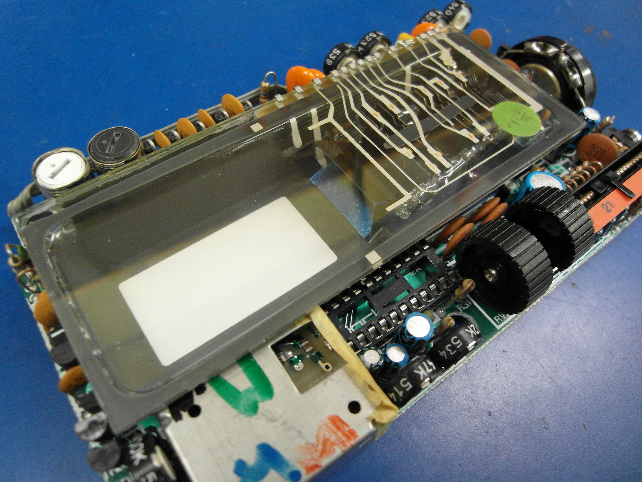 Front side of the PCB of the Sinclair FTV1 TV80 showing the flat CRT assembly